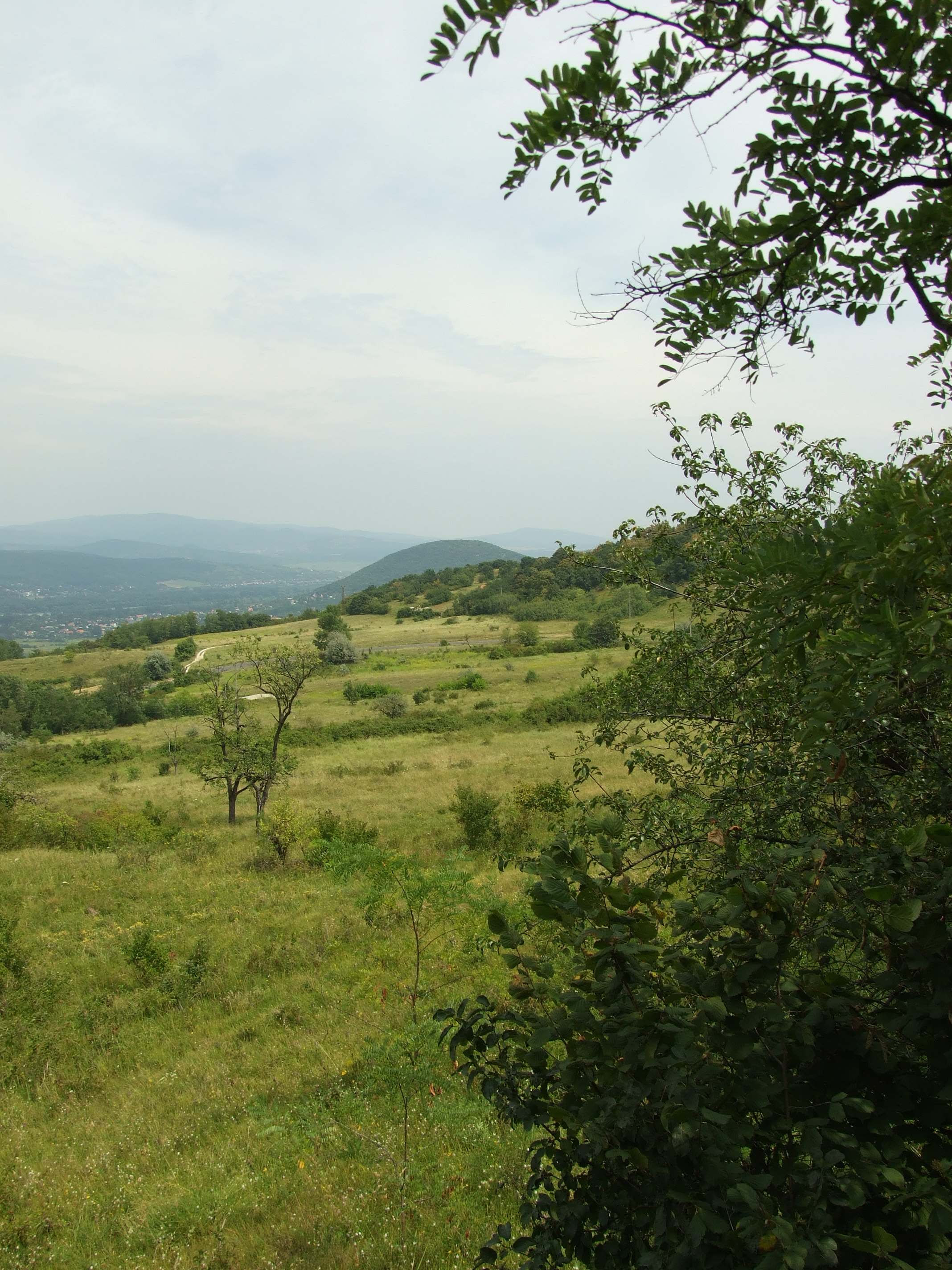 Landscape near Esztergom in Duna-Ipoly national park, Komárom-Esztergom comitat, Hungaryhelp